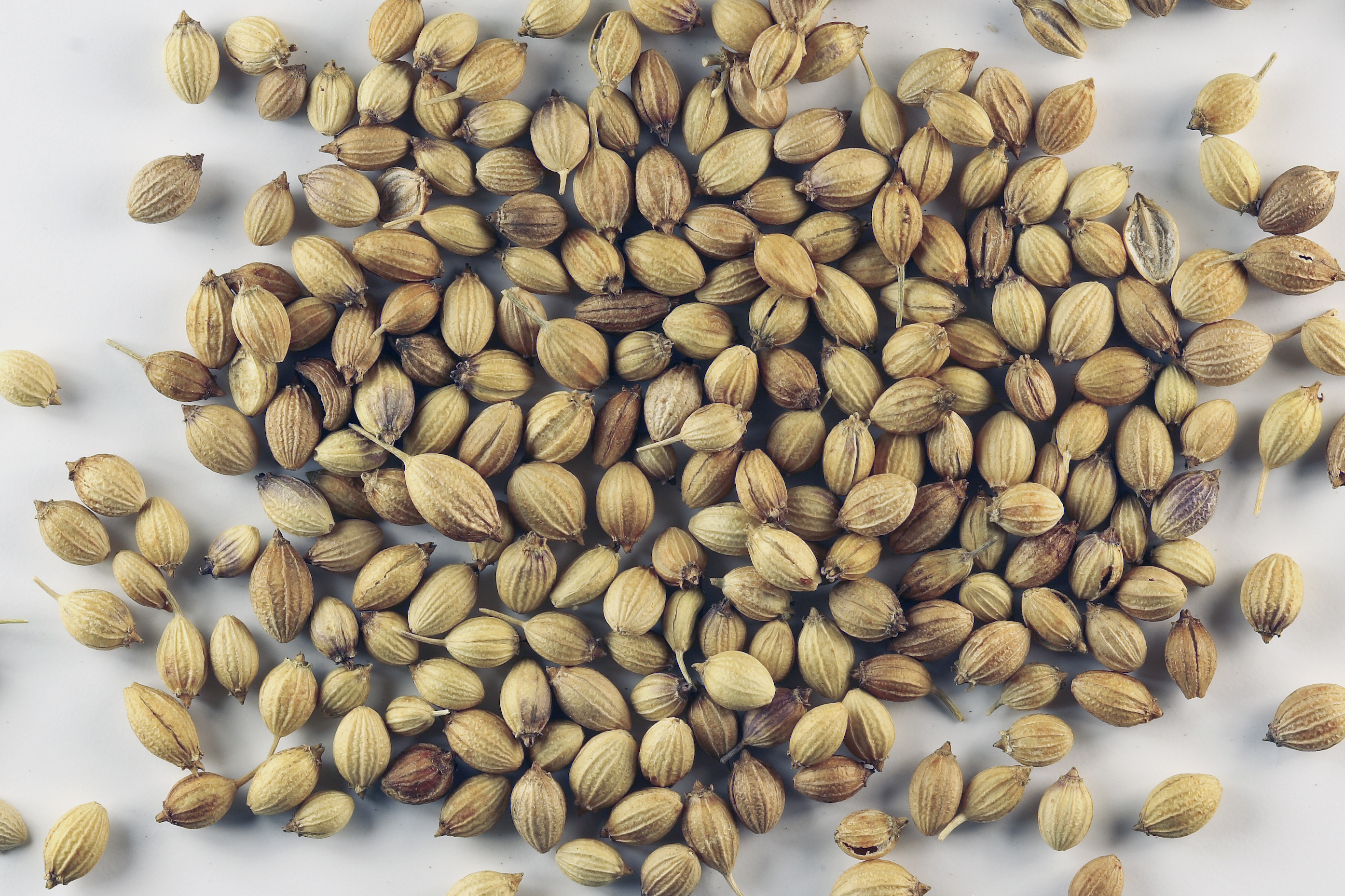 Close-up picture of coriander seeds